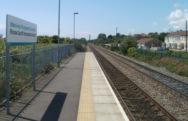 Rhoose Cardiff International Airport railway station platform for westbound trains